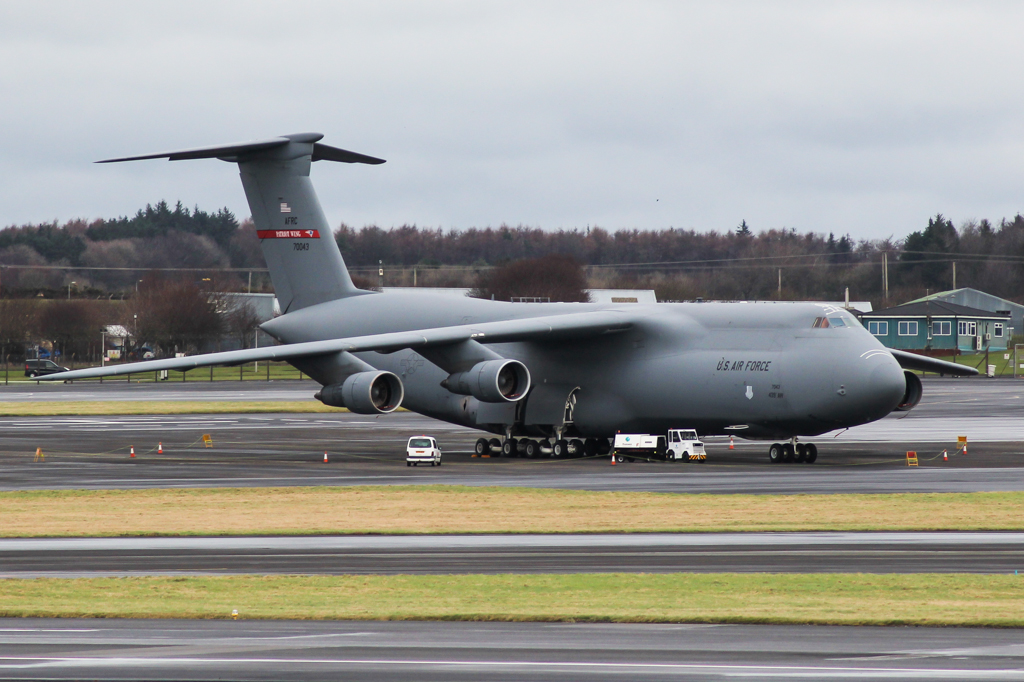 70043 Lockheed C-5B Galaxy USAF at Prestwick Airport